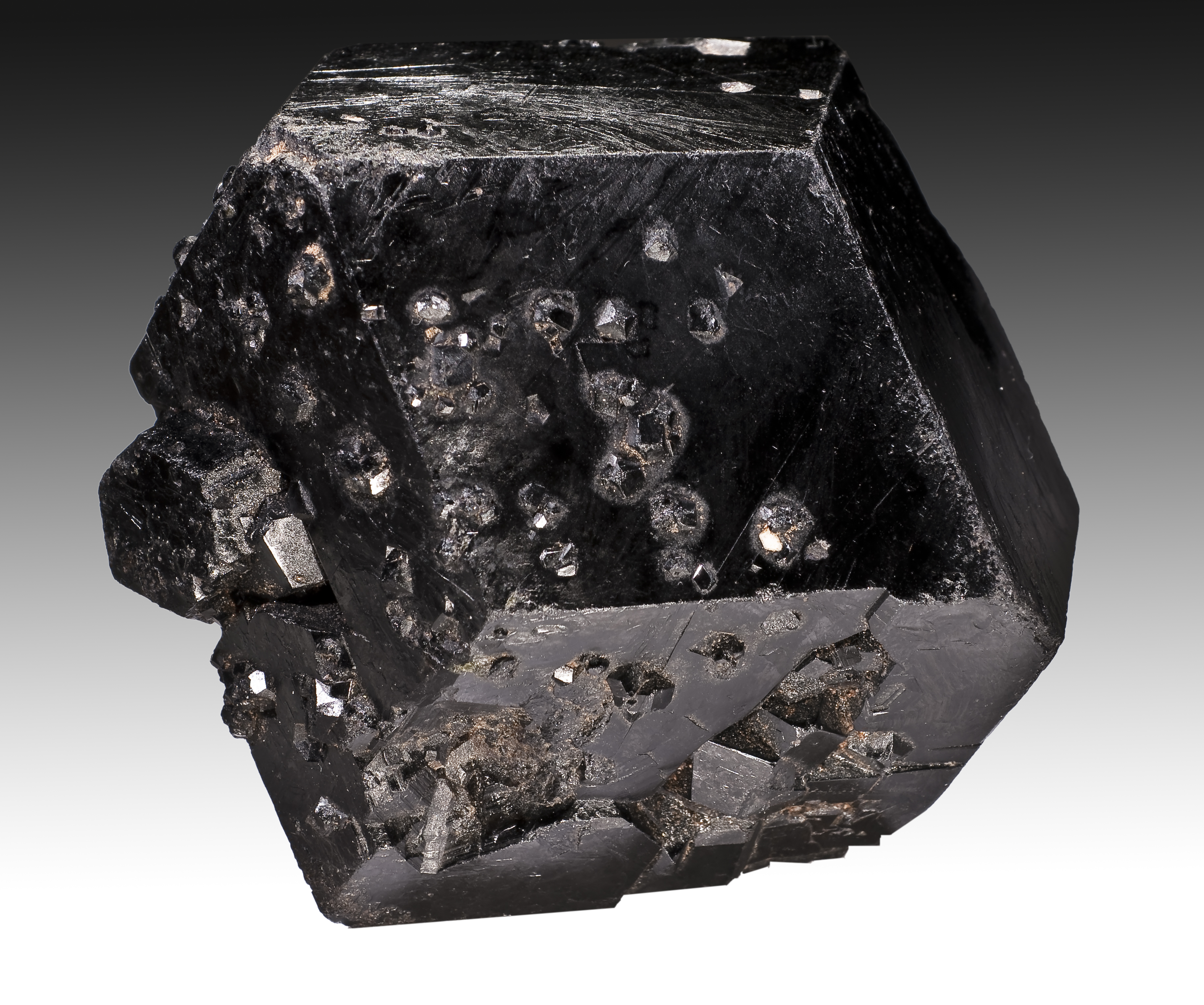 Melanite : single crystal Locality: Diakon, Kayes Region, Mali size 7 cm